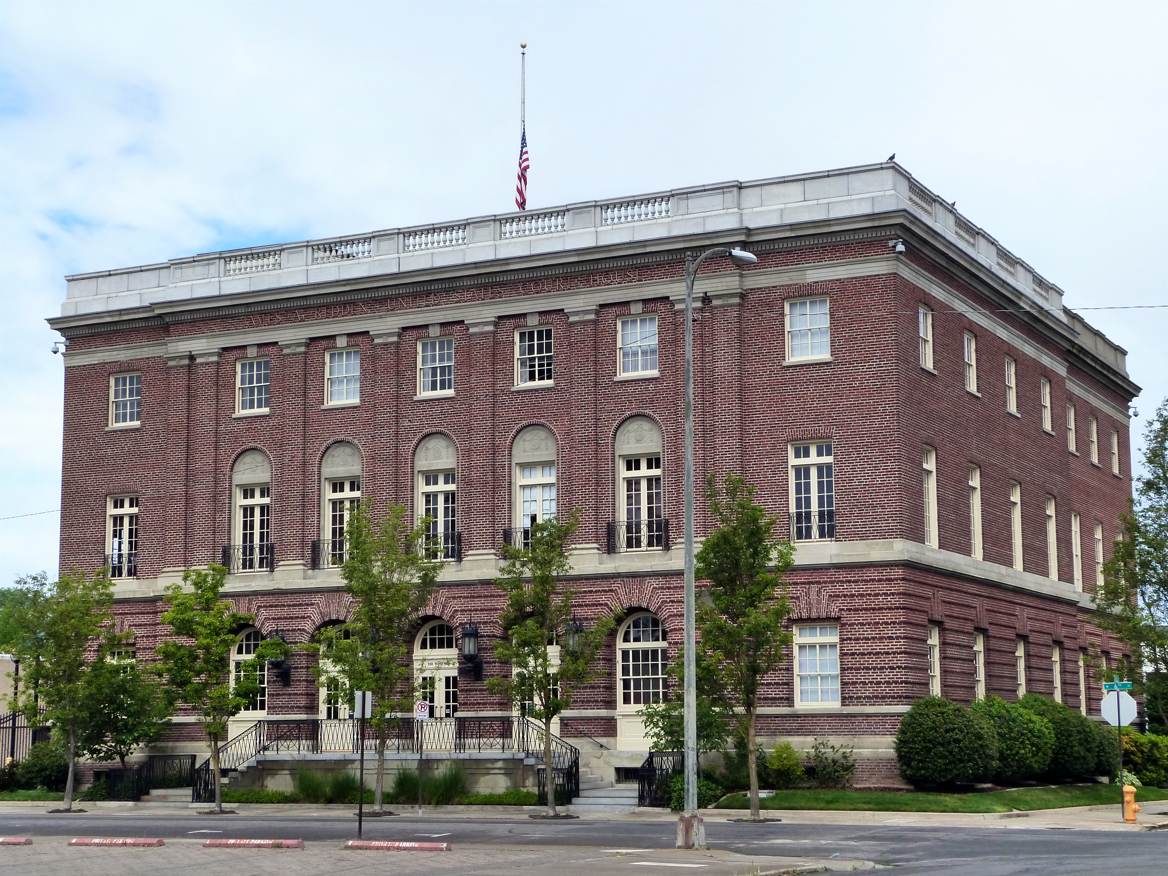 The historic James A. Redden Federal Courthouse (built 1915), located at 310 West 6th Street in Medford, Oregon, United States, is listed on the U.S. National Register of Historic Places under the name "U.S. Post Office and Courthouse". It is additionally listed as a contributing resource in the Medford Downtown Historic District, which is also listed on the National Register.